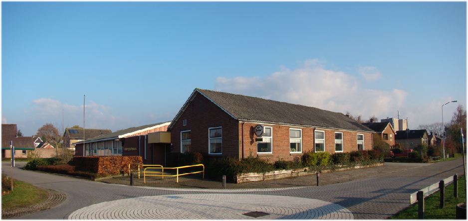 Intersection of Kruisdijk and Thijsweg in Ijzerlo, a neighbourhood of Aalten, Netherlands.